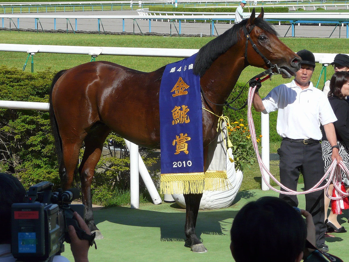 Earnestly